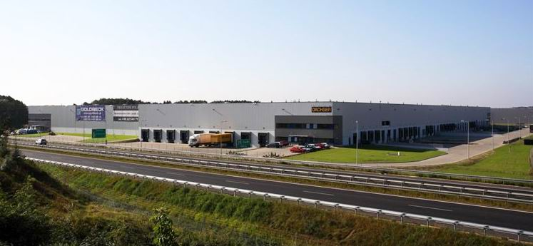 Gądki - park magazynowy Panattoni Park Poznań